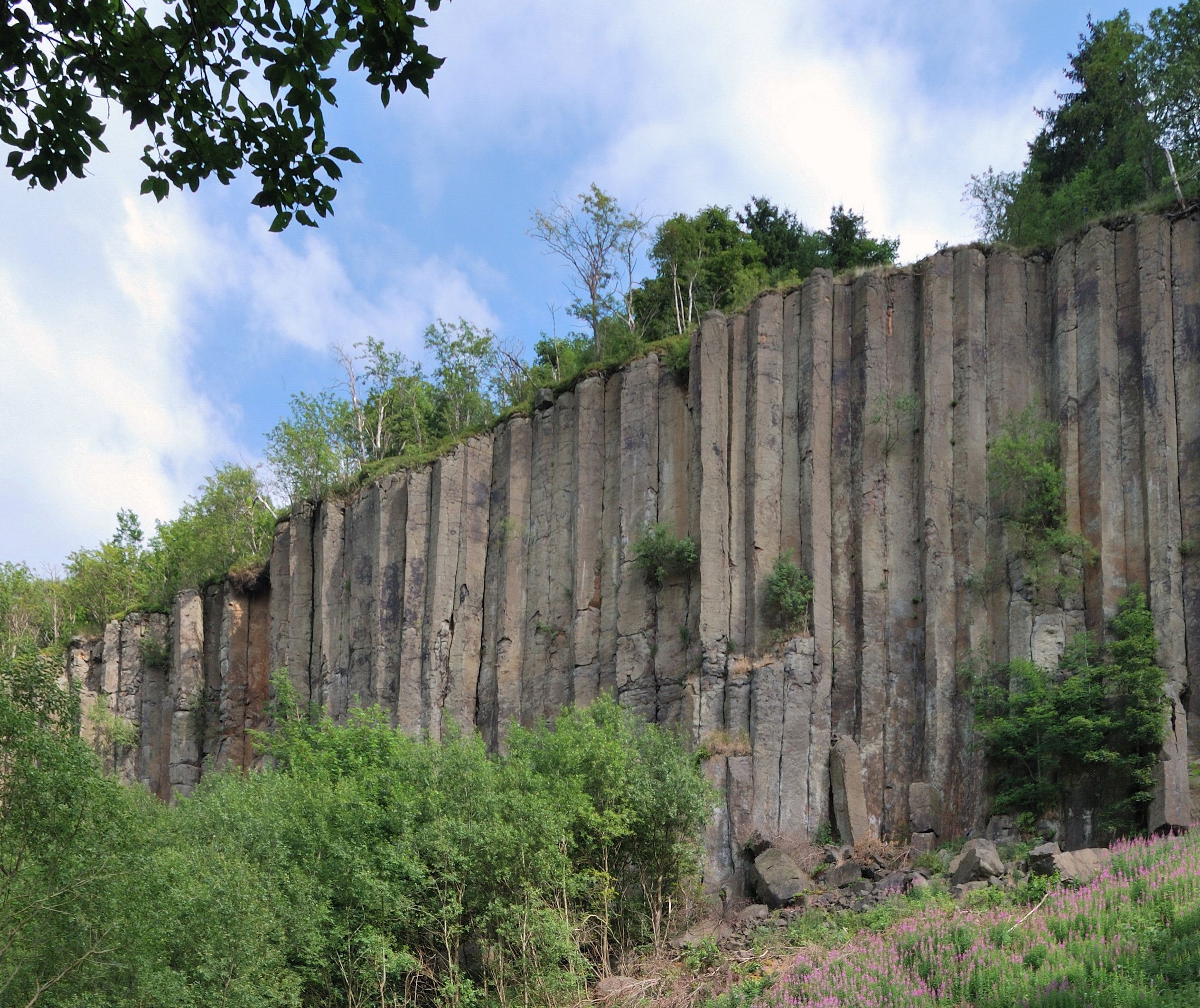 Basalt columns (named also organ pipes) on Scheibenberg, in Ore Mountains in Saxony, Germany.